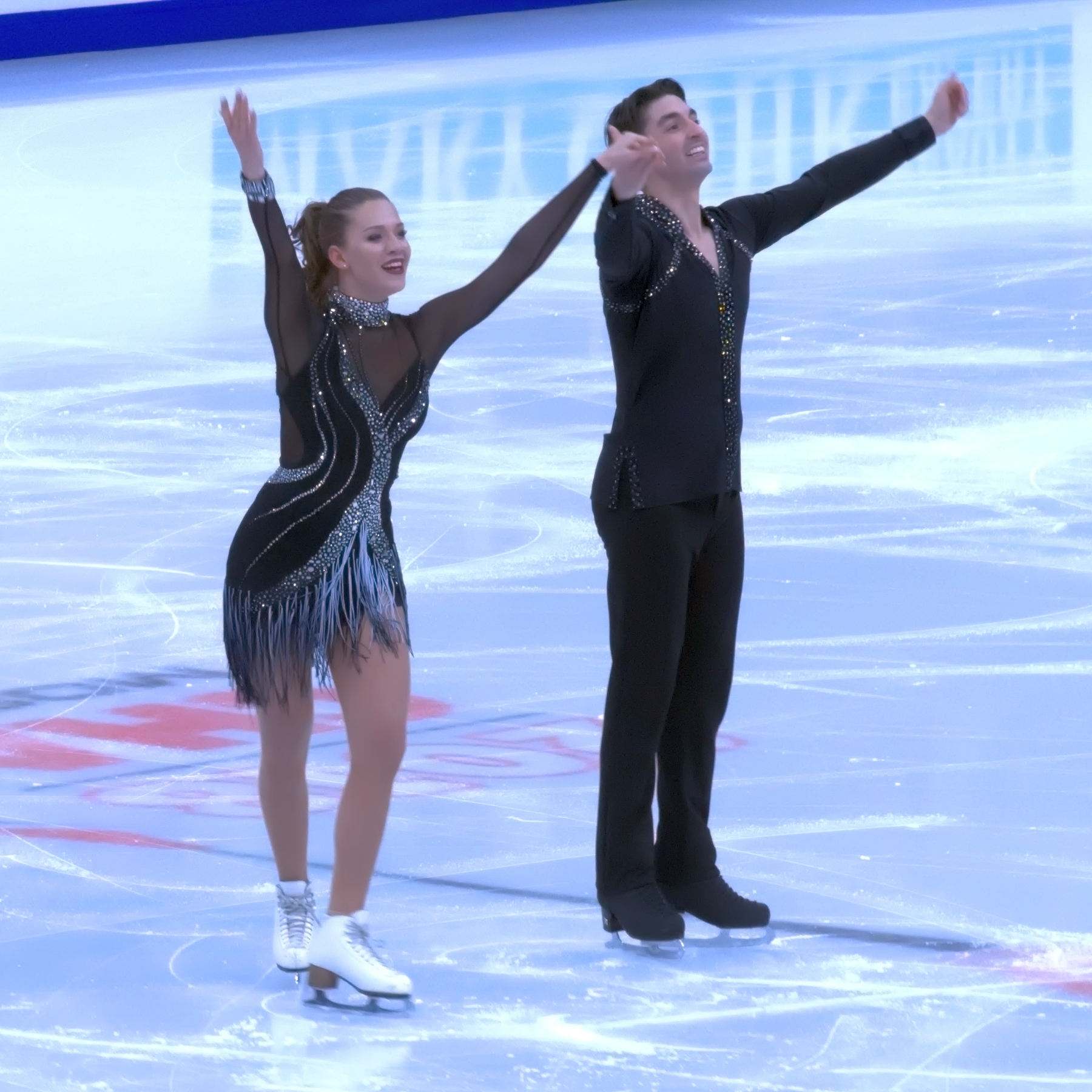 Alisa Agafonova and Alper Uçar at the 2018 European Figure Skating Championships in Moscow